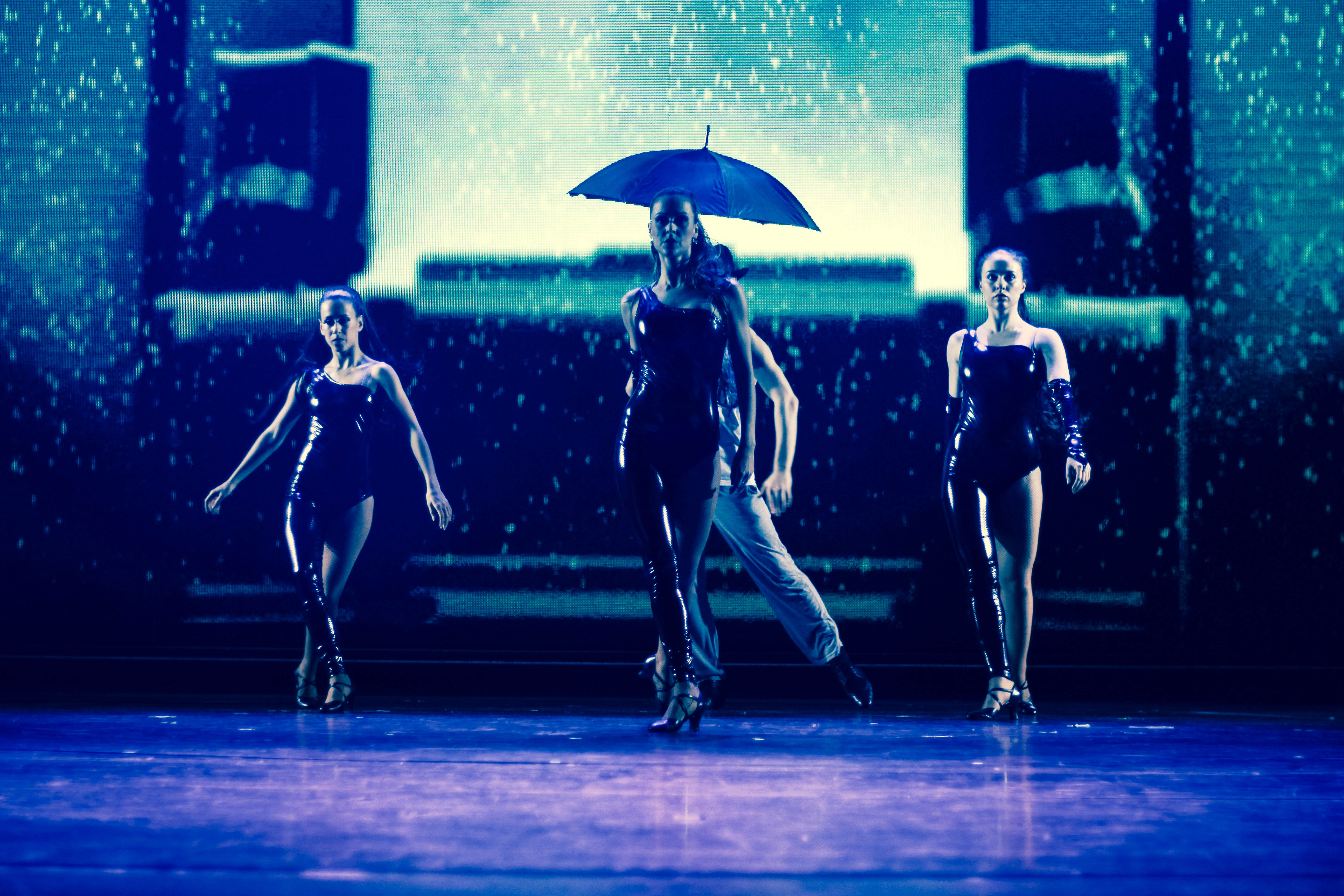 René Meusel - Choreography "Liber Tango" by Grace Jones for Mein Schiff 3 (TUI Cruises Entertainment)